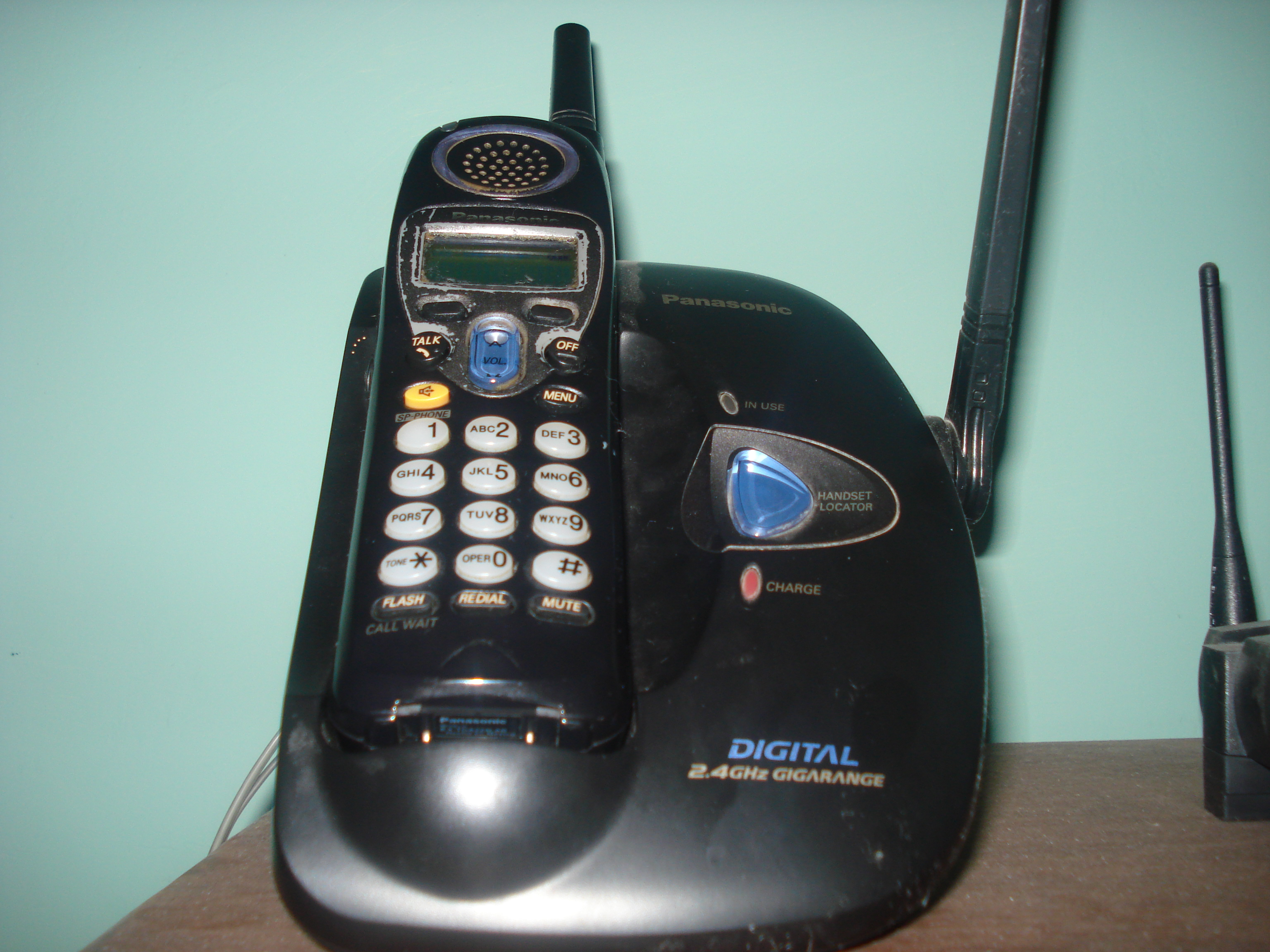 digital phone